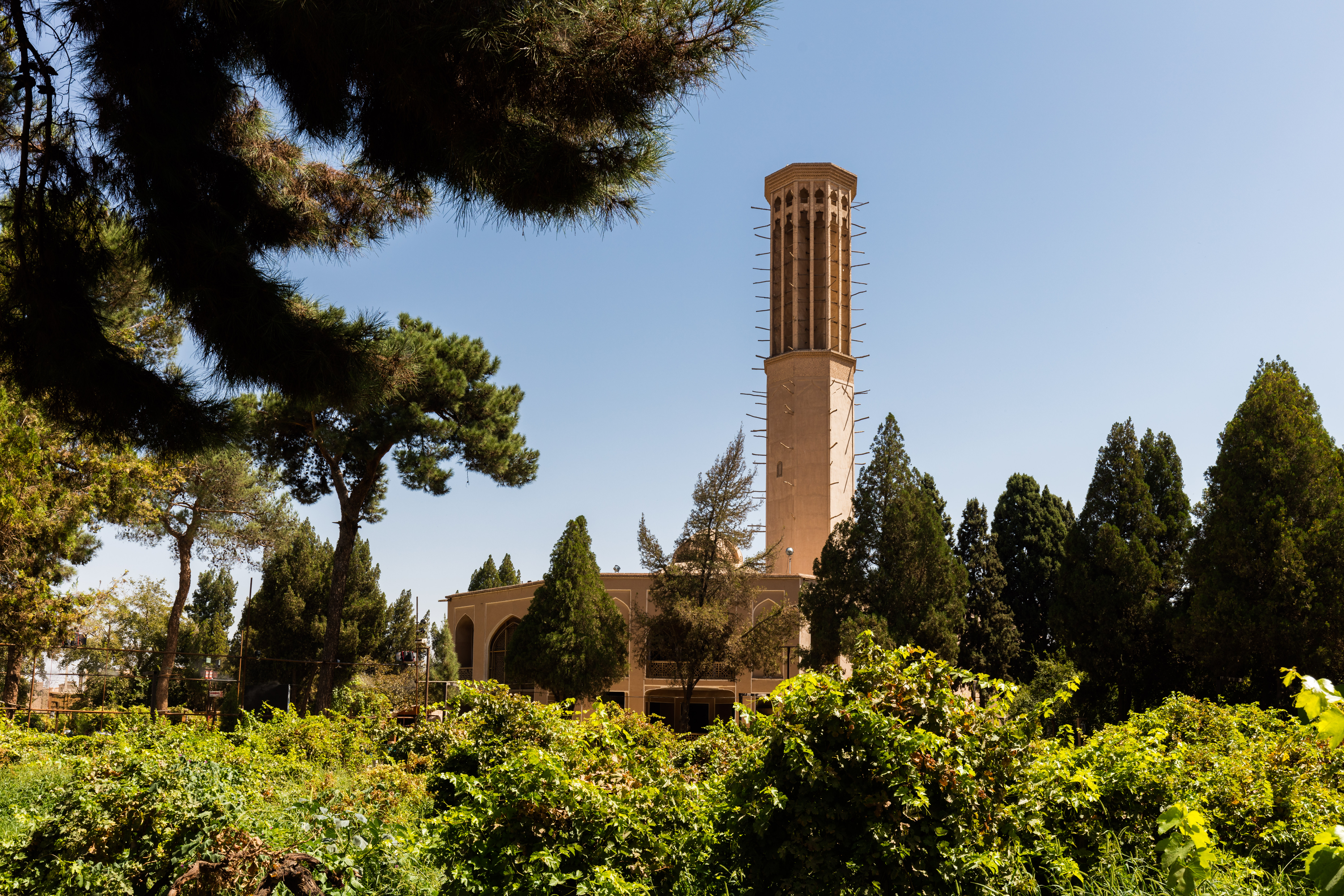 Dolat-Abad Garden, Yazd, Iran